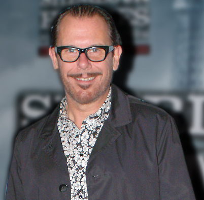 The Sydney premiere of SHERLOCK HOLMES: A GAME OF SHADOWS. Guests included Kirk Pengilly